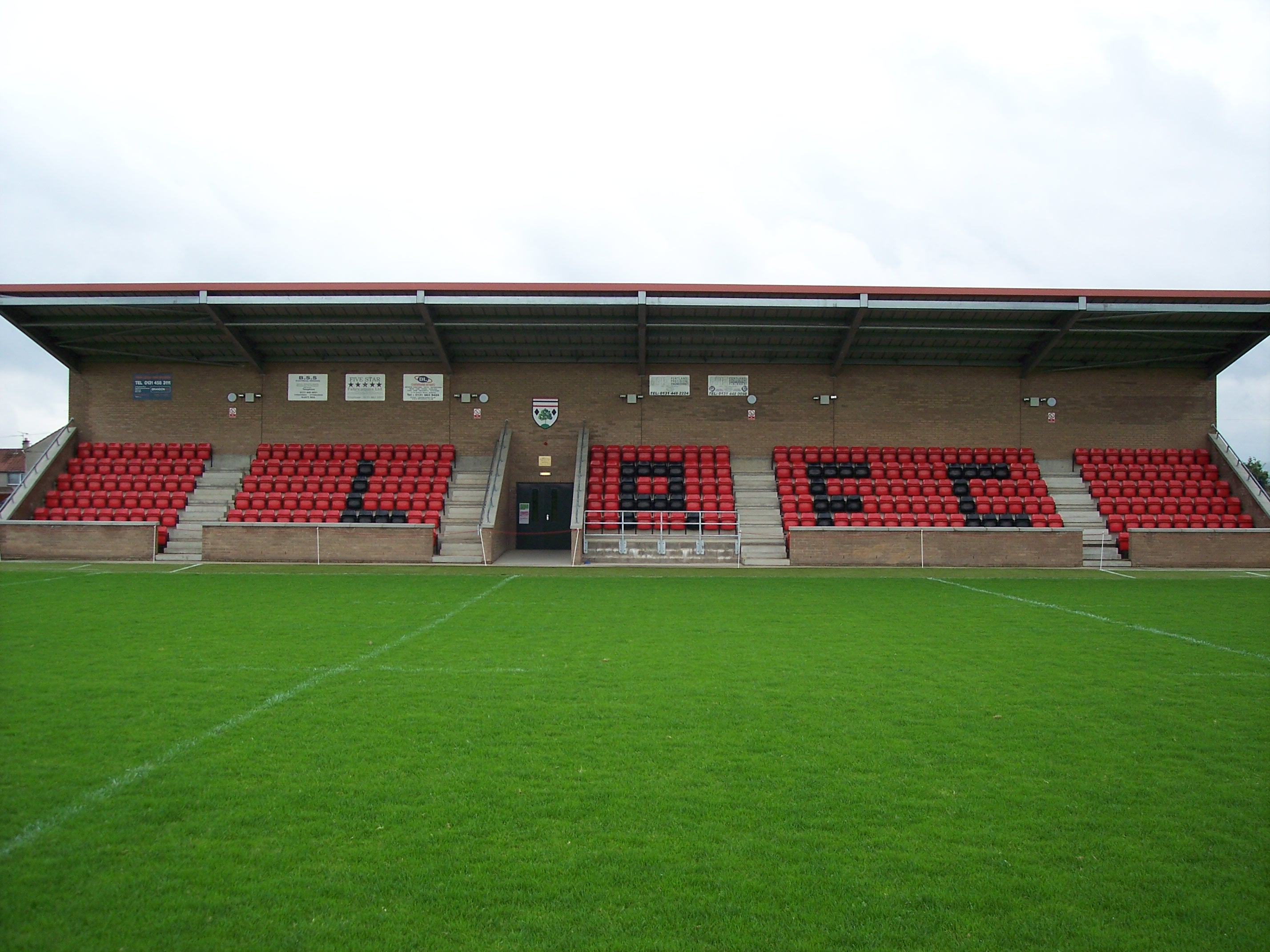 Lasswade RFC Main Stand